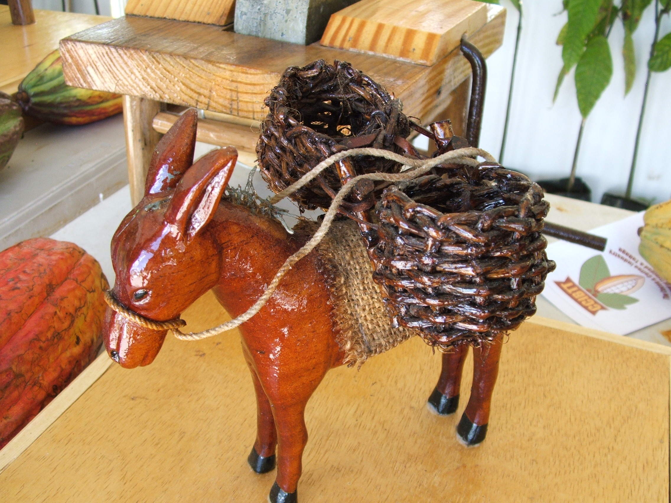 Donkey with panniers - Cocoa production in Trinidad & Tobago